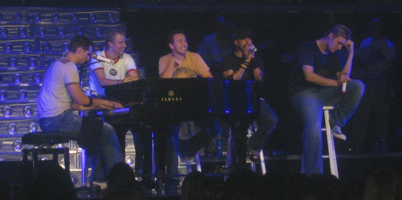 Never Gone tour in Vancouver-Canada performing Incomplete.